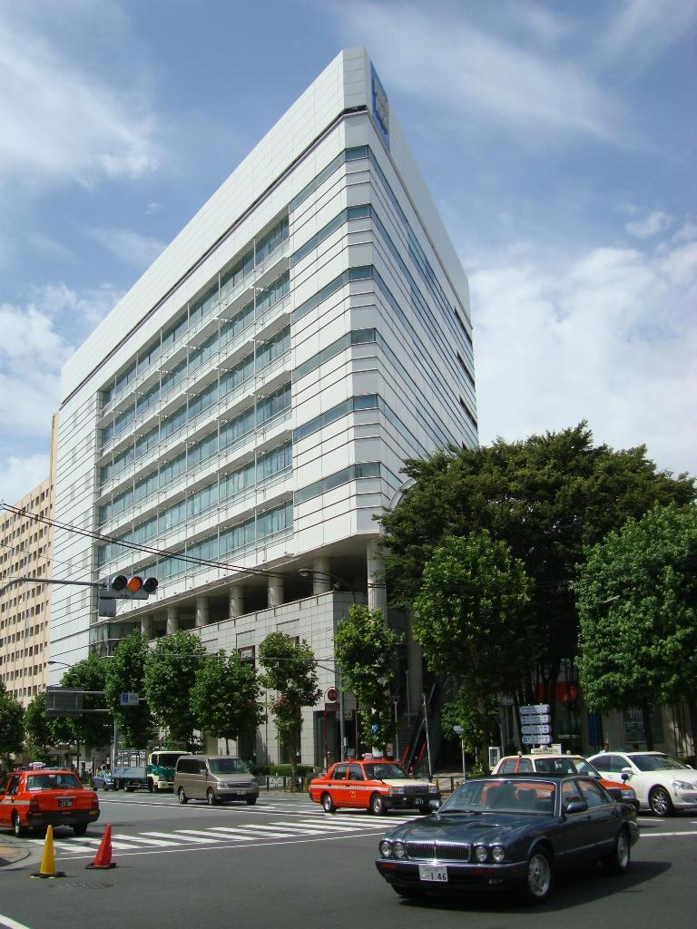 The Hiroo Plaza building, Hiroo, Shibuya city, Tokyo